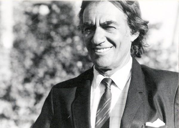 Grammy Award Winner Ric Marlow